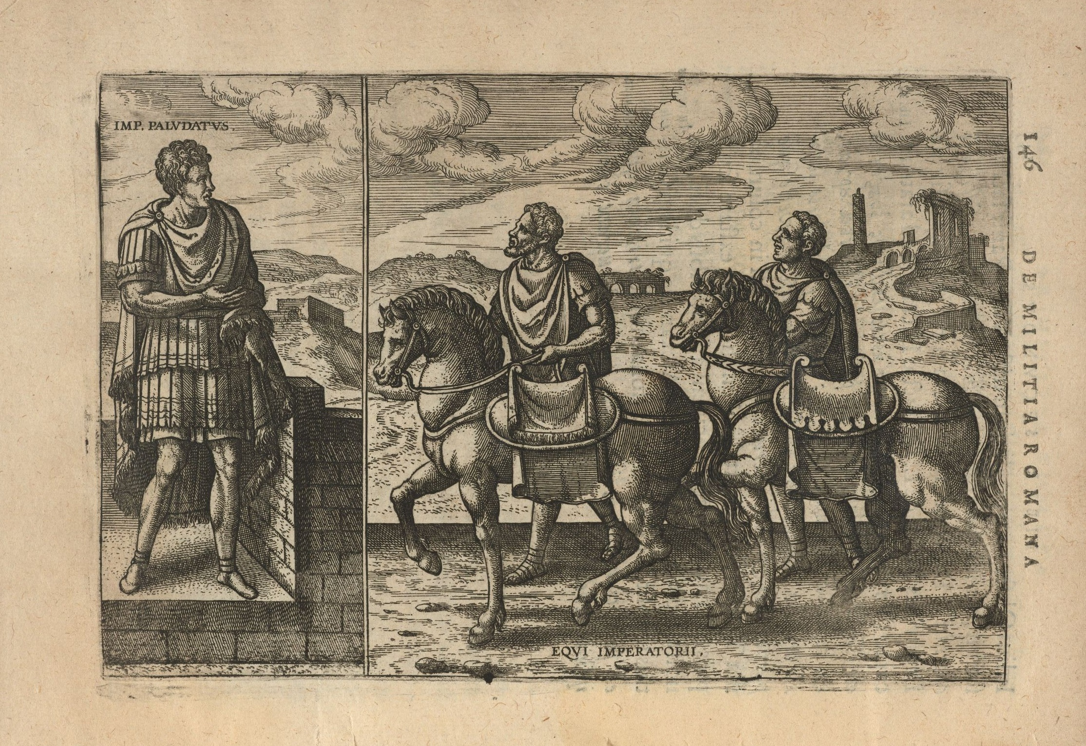 Illustration from De militia romana libri quinque, Antwerp: 1596, by Justus Lipsius (1547-1606). *NC5 L6698 596d, Houghton Library, Harvard University